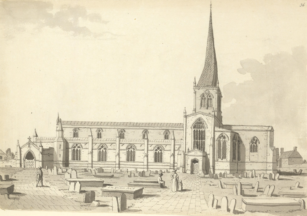 Parish church of Our Lady and All Saints with its crooked spire in 1773